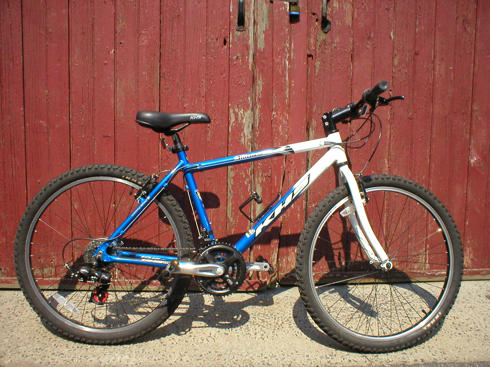 A KHS Alite 100 mountain bike